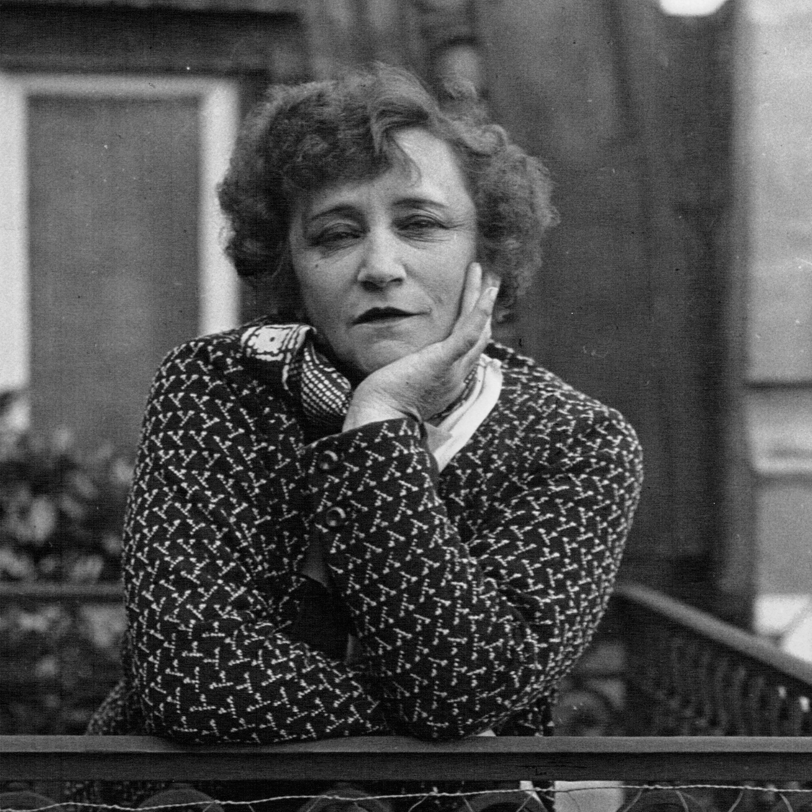 French writer Colette (1873-1954).